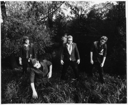 Members of Necro Strike from left to right: Jack (bass), Ma:RT (guitars), No:PS (vocals) and Rinx (drums).